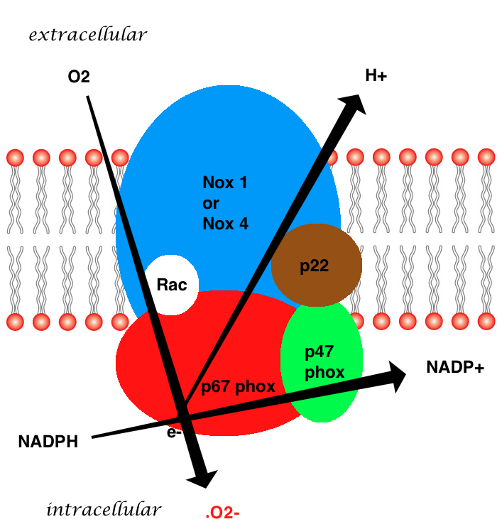 Enzyme